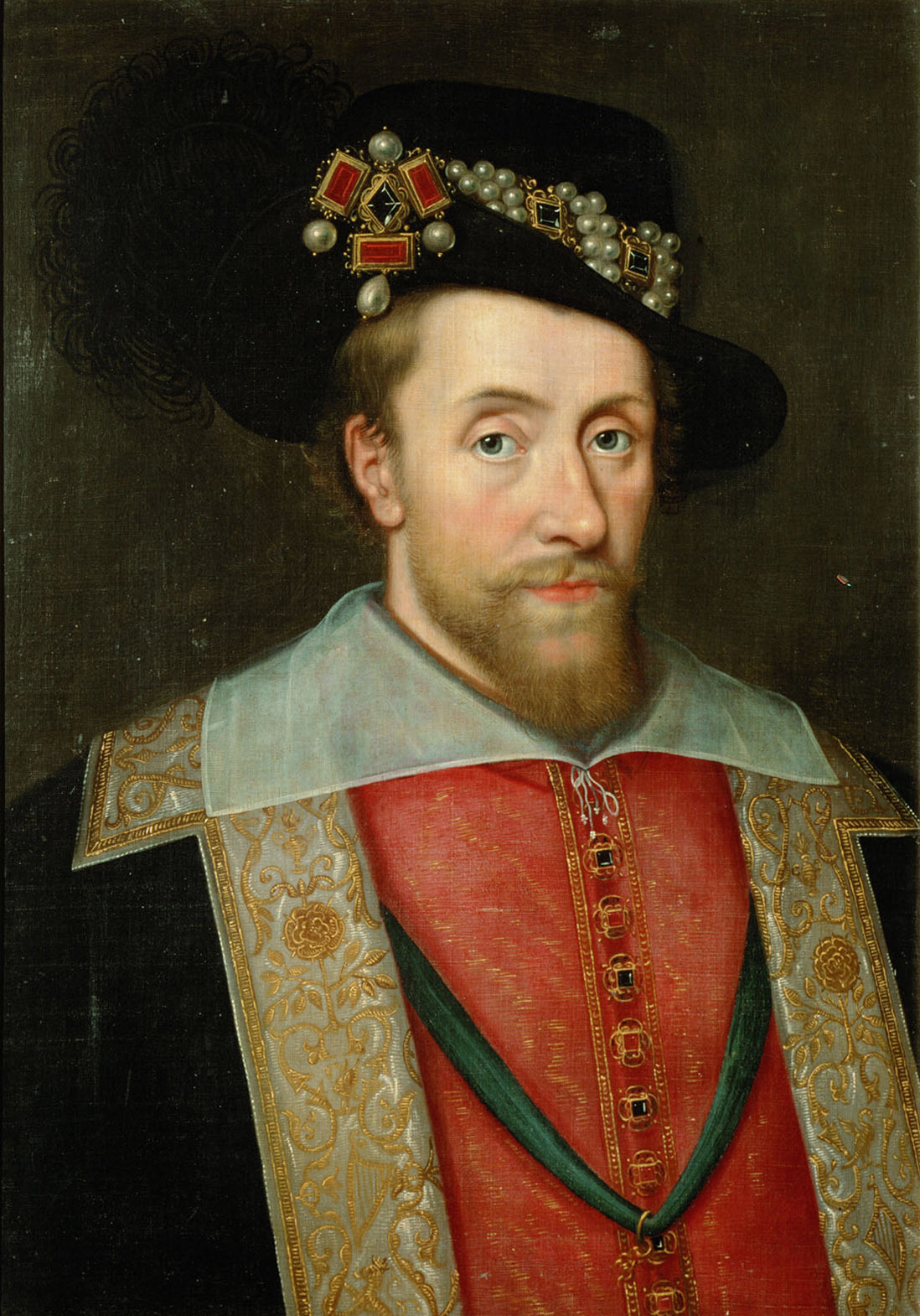 Painting of James VI and I wearing the jewel called the Three Brothers in his hat